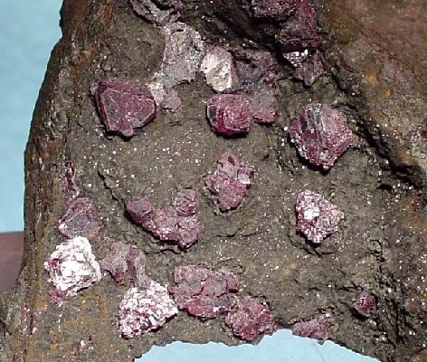 Cuprite, Delafossite Locality: Chengmenshan Cu-Mo-Au deposit, Jiurui Mining District, Jiujiang County, Jiujiang Prefecture, Jiangxi Province, China (Locality at ) Size: 4.7 x 4.3 x 2.8 cm. Lustrous, discrete, wine-red cuprite crystals to 6 mm aesthetically scattered on matrix covered by sparklly delafossite microcrystals from recent finds at the well-known Chengmenshan Copper Mine of Jiangxi Province. Excellent and showy material.